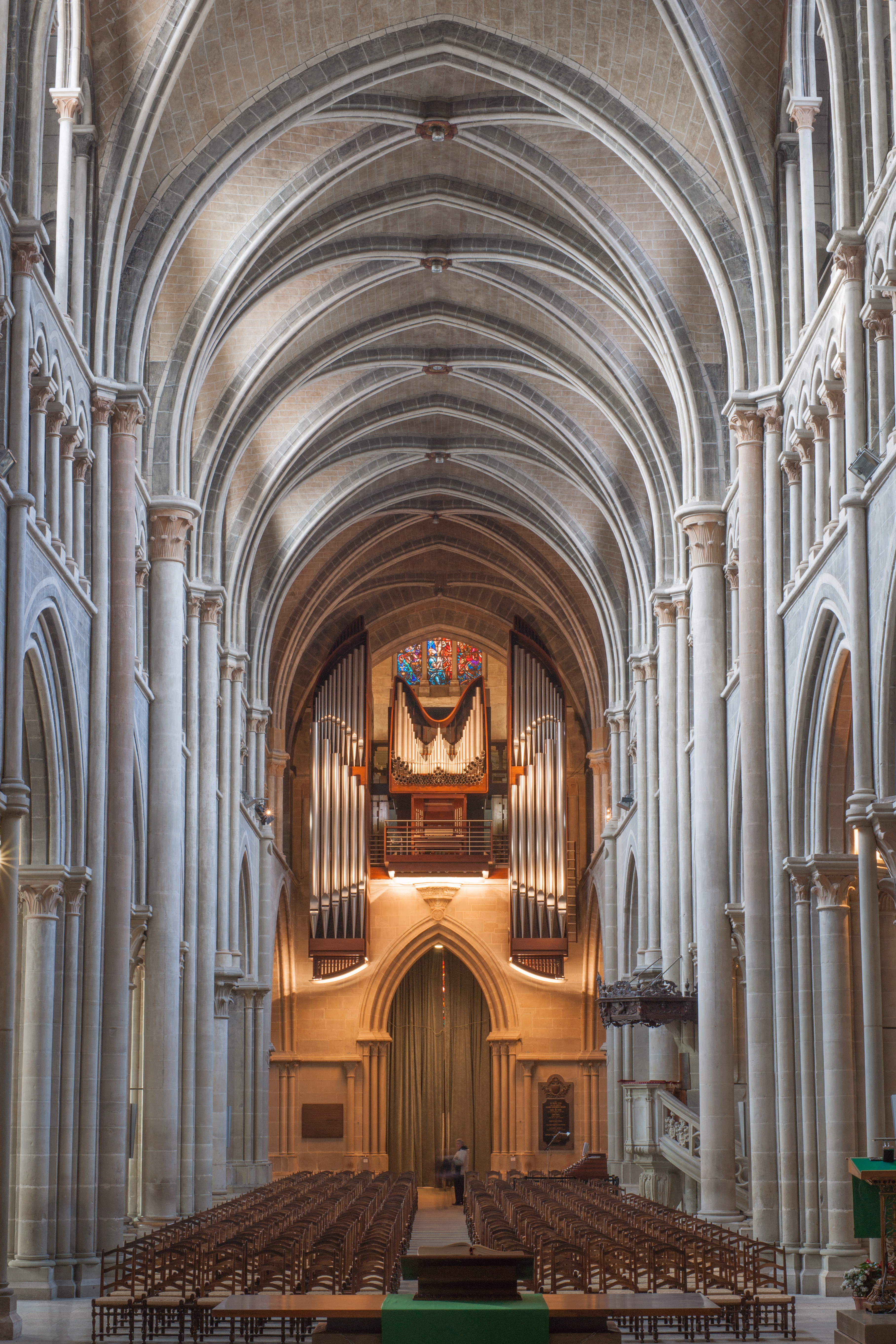 Interior of Lausanne Cathedral